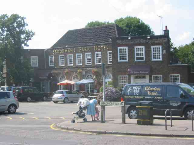 Brookmans Park Hotel. The building exudes an air of opulence. Must try it sometime.